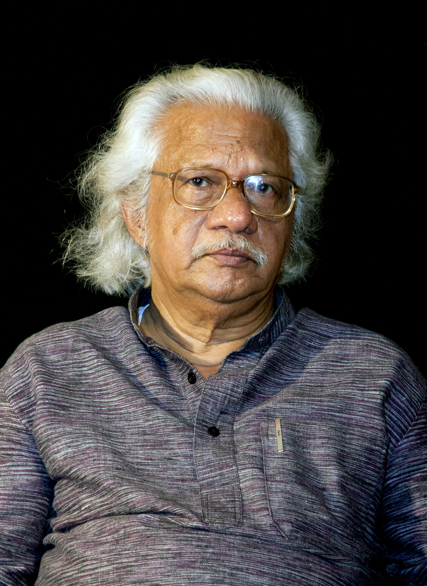 Adoor Gopalakrishnan is a noted Indian film director, screenplay writer, and producer. This photograph is shot during a public event organized by Margi, Thiruvananthapuram on 15th of Aug, 2012.